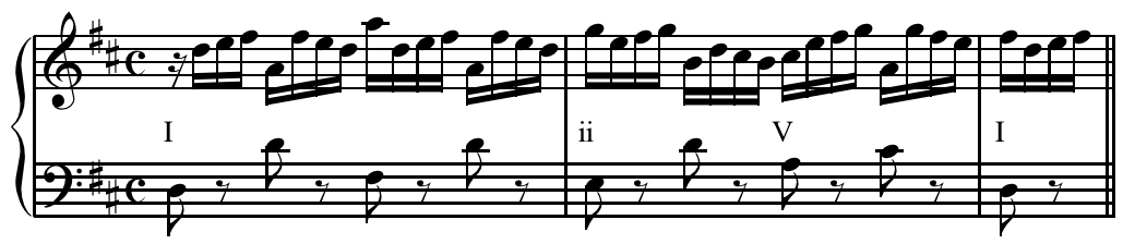 ii-V-I in Bach's WTC I, Prelude in D Major.